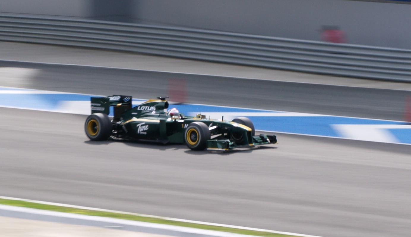 Photo from the Jerez Test taked by me.